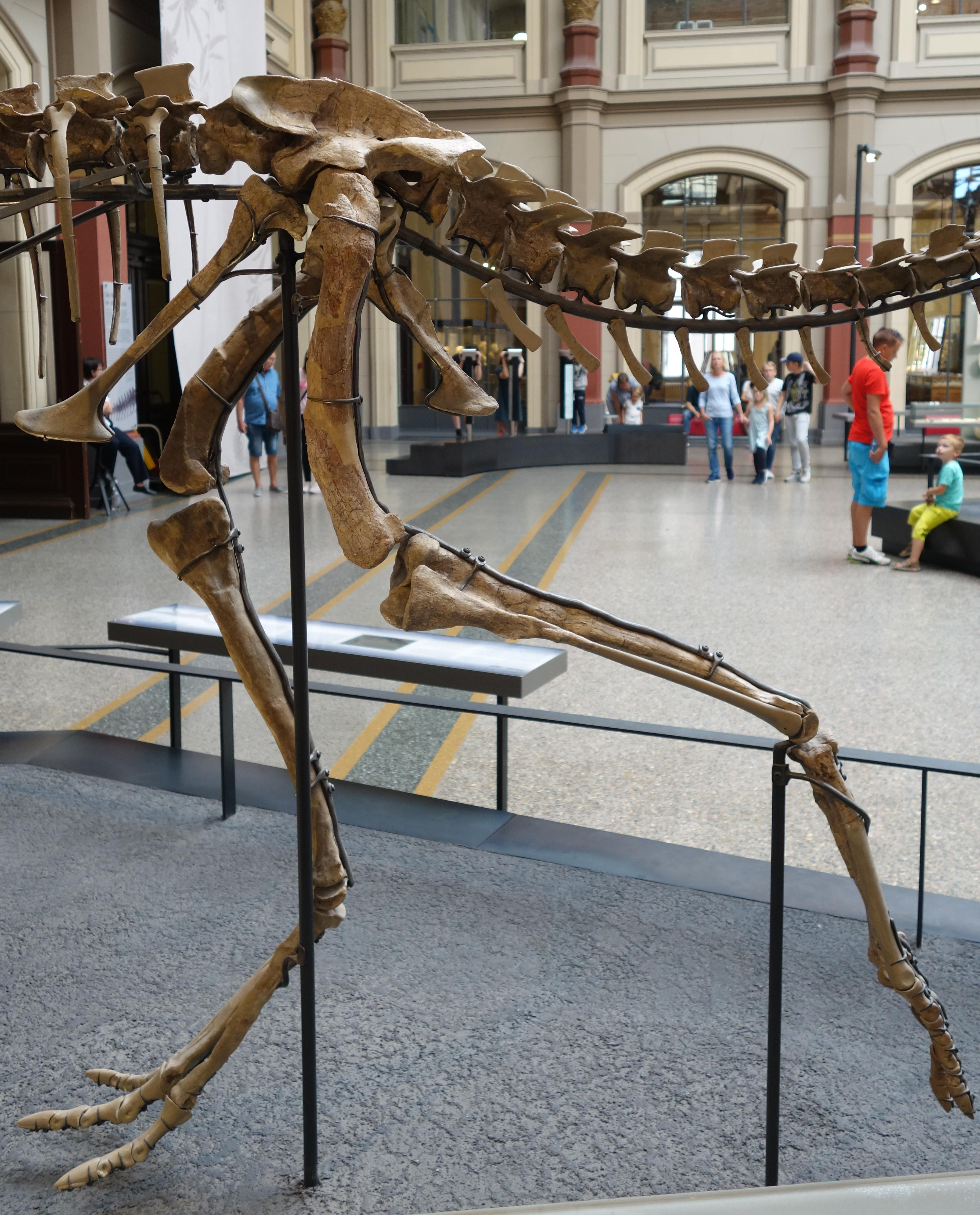 Elaphrosaurus mount in the Museum für Naturkunde, Berlin; detail of hind limb.